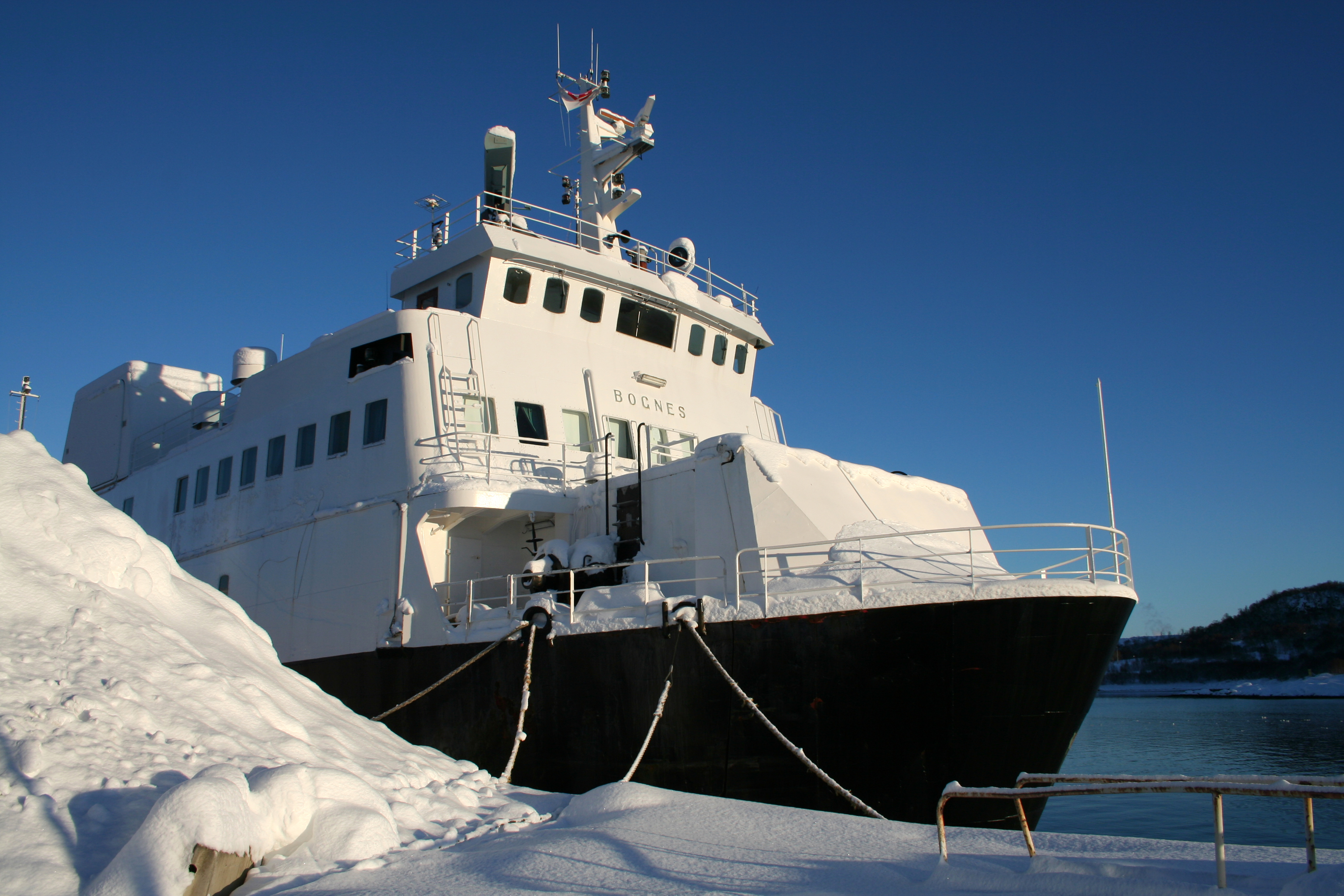 Ferry MS Bognes at Stokmarknes IMO number: 7608758